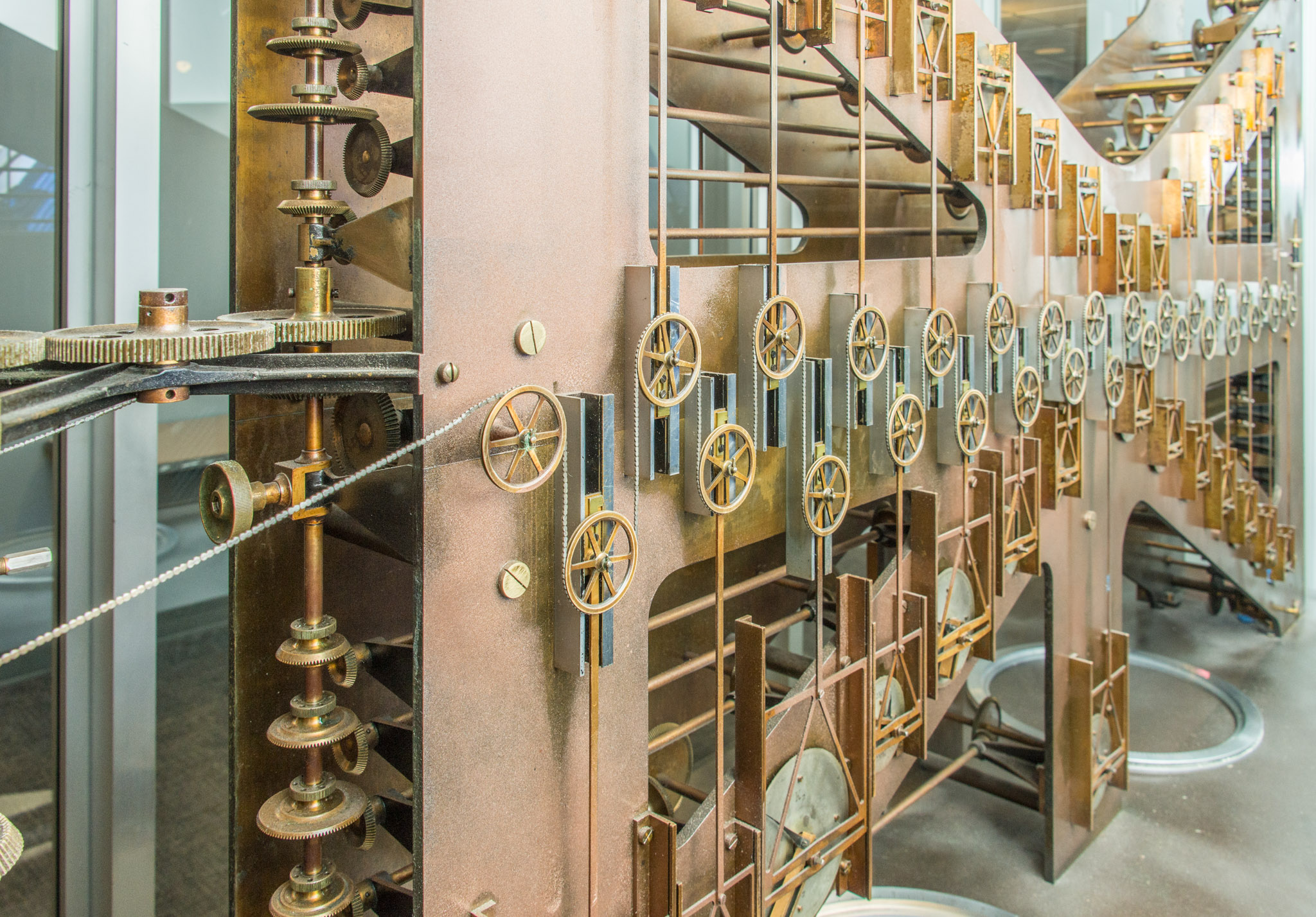 This photo shows the largest of the three sections of Tide Predicting Machine No. 2, a special purpose mechanical analog computer for predicting the height and time of high and low tides. The gears on the left transmit power from the hand crank. The components on the right contribute to the computation of the time of high and low tides.The U.S. government used Tide Predicting Machine No. 2 from 1910 to 1965 to predict tides for ports around the world. The machine, also known as “Old Brass Brains,” uses an intricate arrangement of gears, pulleys, chains, slides, and other mechanical components to perform the computations.A person using the machine would require 2-3 days to compute a year’s tides at one location. A person performing the same calculations by hand would require hundreds of days to perform the work. The machine is 10.8 feet (3.3 m) long, 6.2 feet (1.9 m) high, and 2.0 feet (0.61 m) wide and weighs approximately 2,500 pounds (1134 kg). The operator powers the machine with a hand crank. The National Oceanographic and Atmospheric Administration (NOAA) maintains the machine in working order.